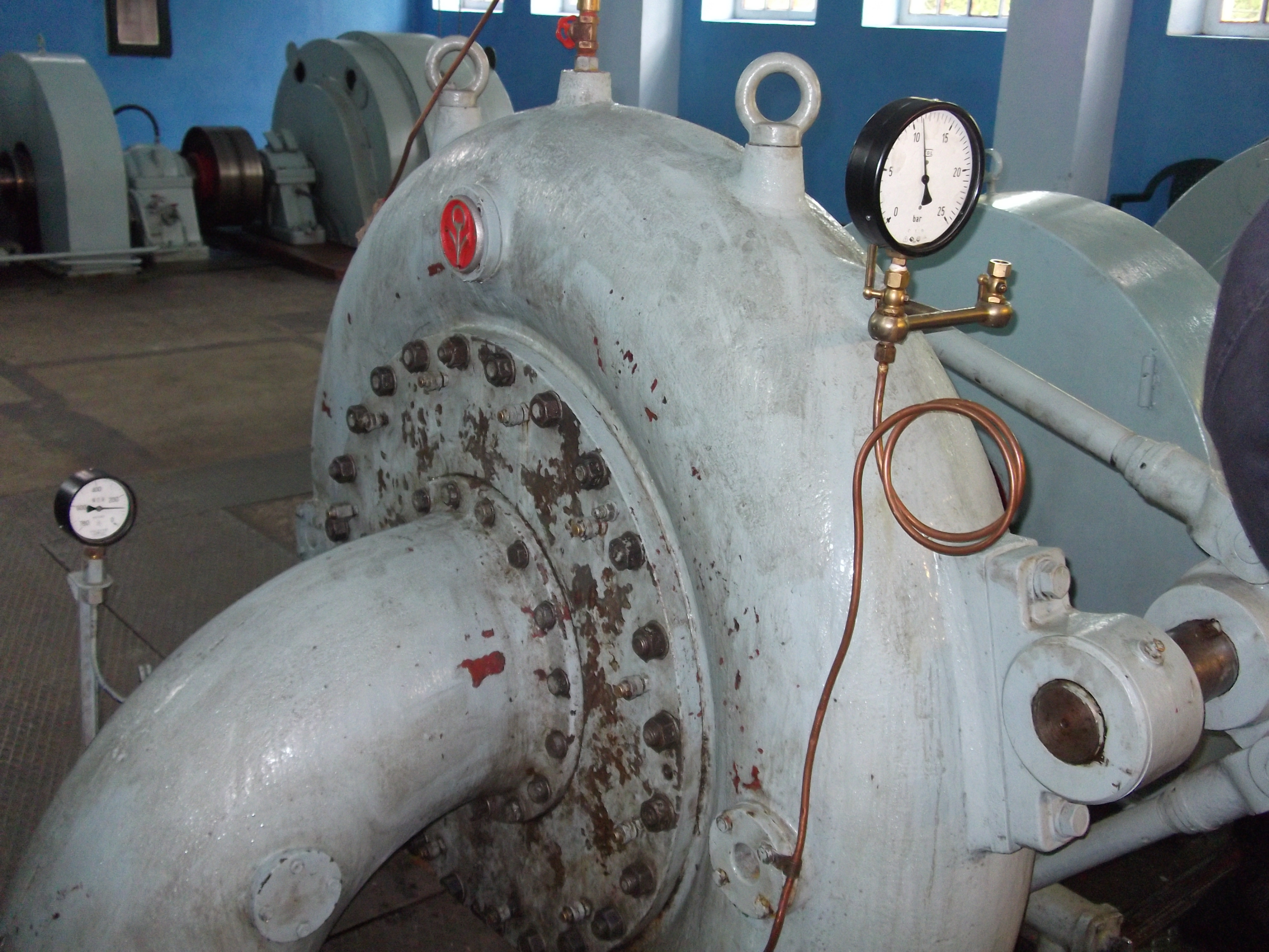 Hidrocentrali I Dikances – Dragash Kosove 6